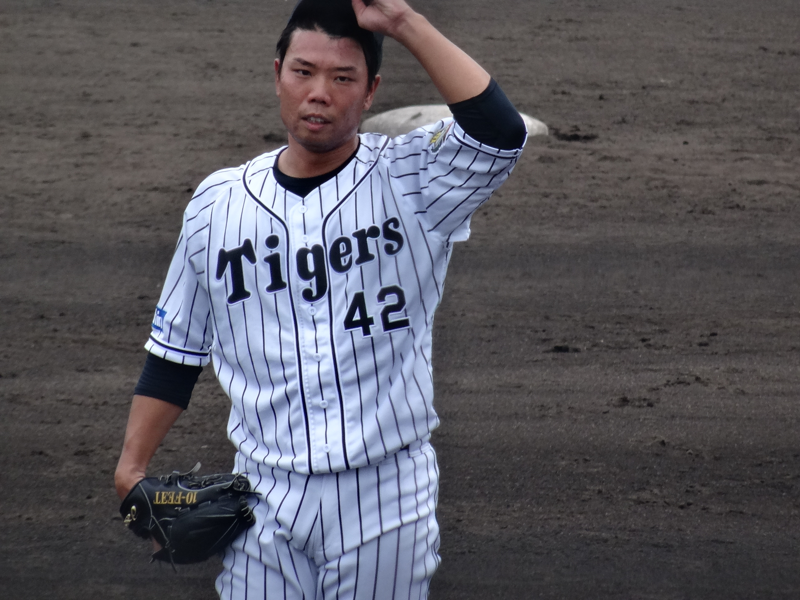 Masanori Fujihara, pitcher of the Hanshin Tigers, at Hanshin Naruohama Baseball Ground.